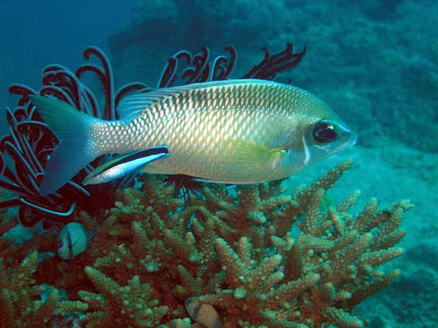 Yellow-axil chromis (Chromis xanthochira) with False cleanerfish (Aspidontus taeniatus), Pulau Aur, West Malaysia